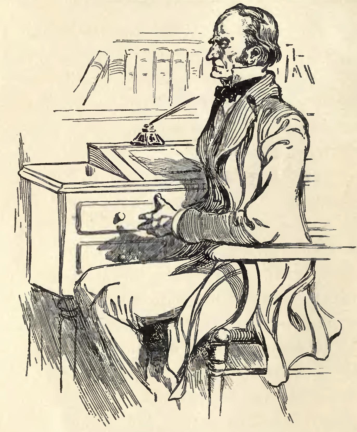 Artwork by Charles Raymond Macauley for the 1904 edition of The strange case of Dr. Jekyll and Mr. Hyde by Robert Louis Stevenson. Publisher: New York Scott-Thaw